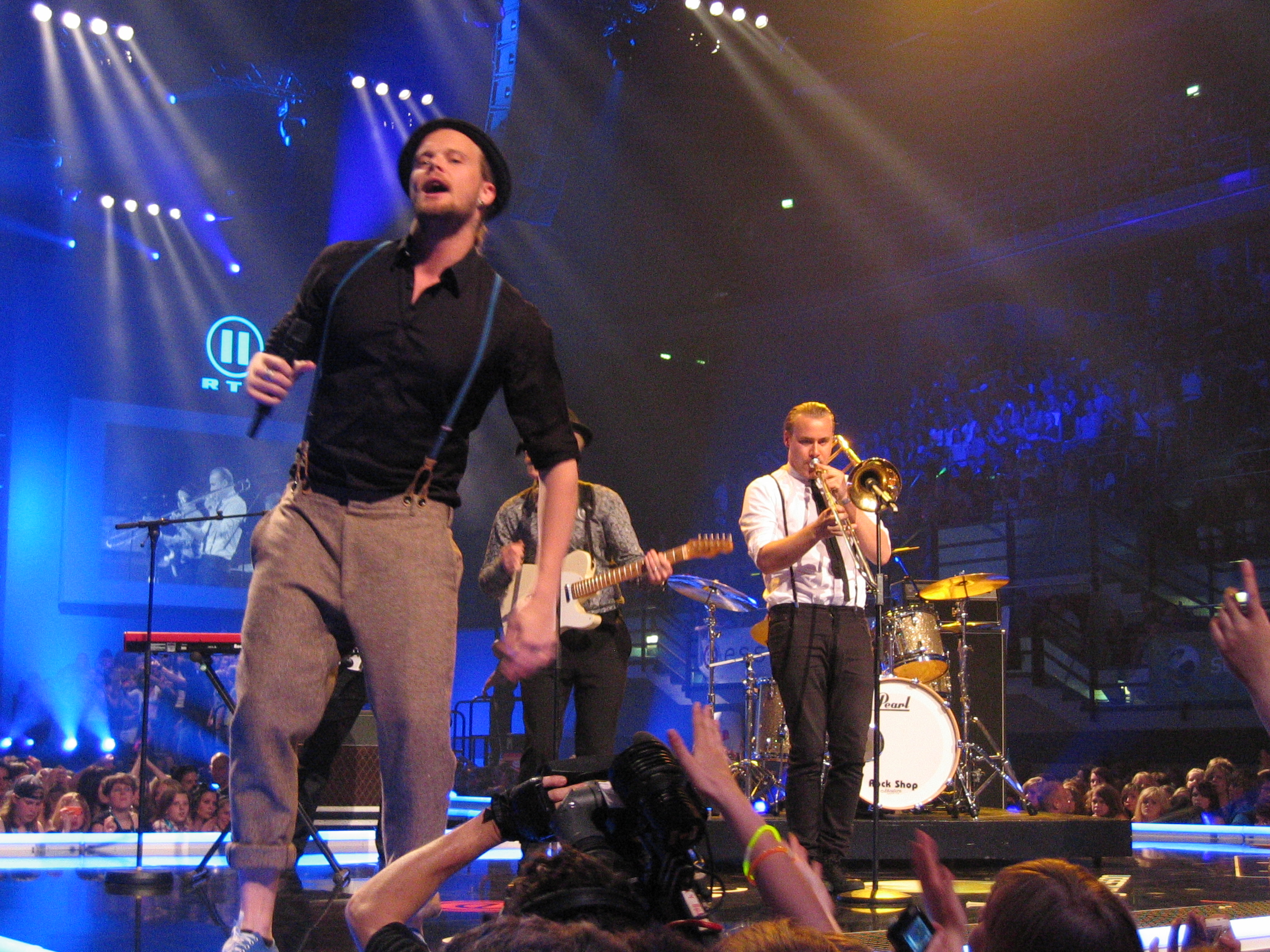 Vincent Pontare at "The Dome 46"